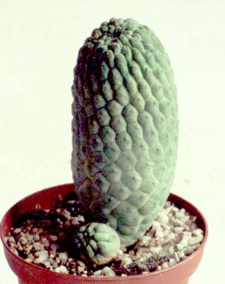 Larryleachia cactiformis Auteur Maarten van Thiel, Zuidhorn, Nederland, 2004. Public domain.